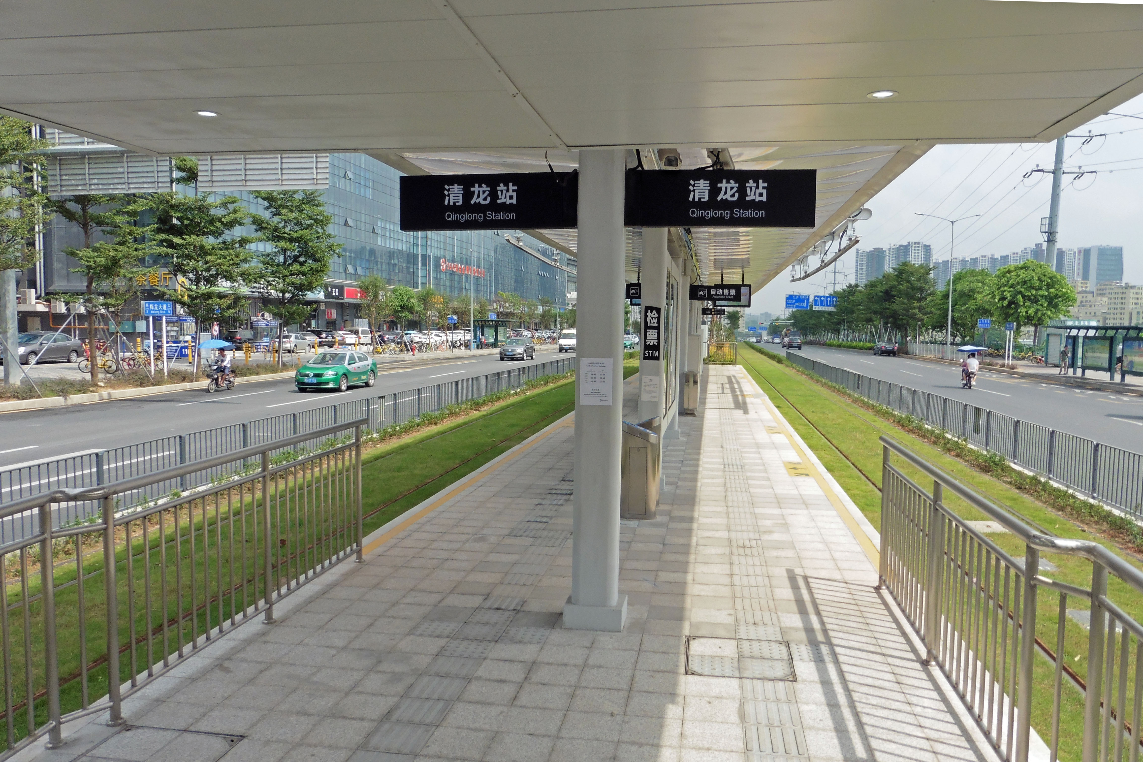 Qinglong Station of Shenzhen Tram 中文（中国大陆）: 深圳有轨电车清龙站